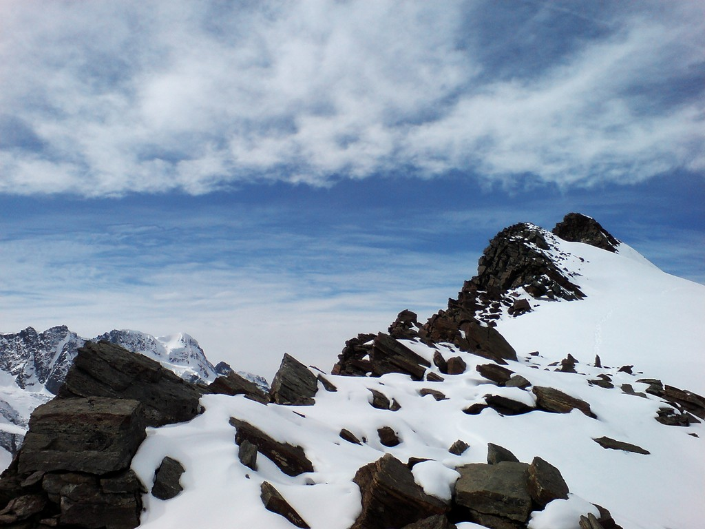 Eastern ridge of Stockhorn (Zermatt), Pennine Alps